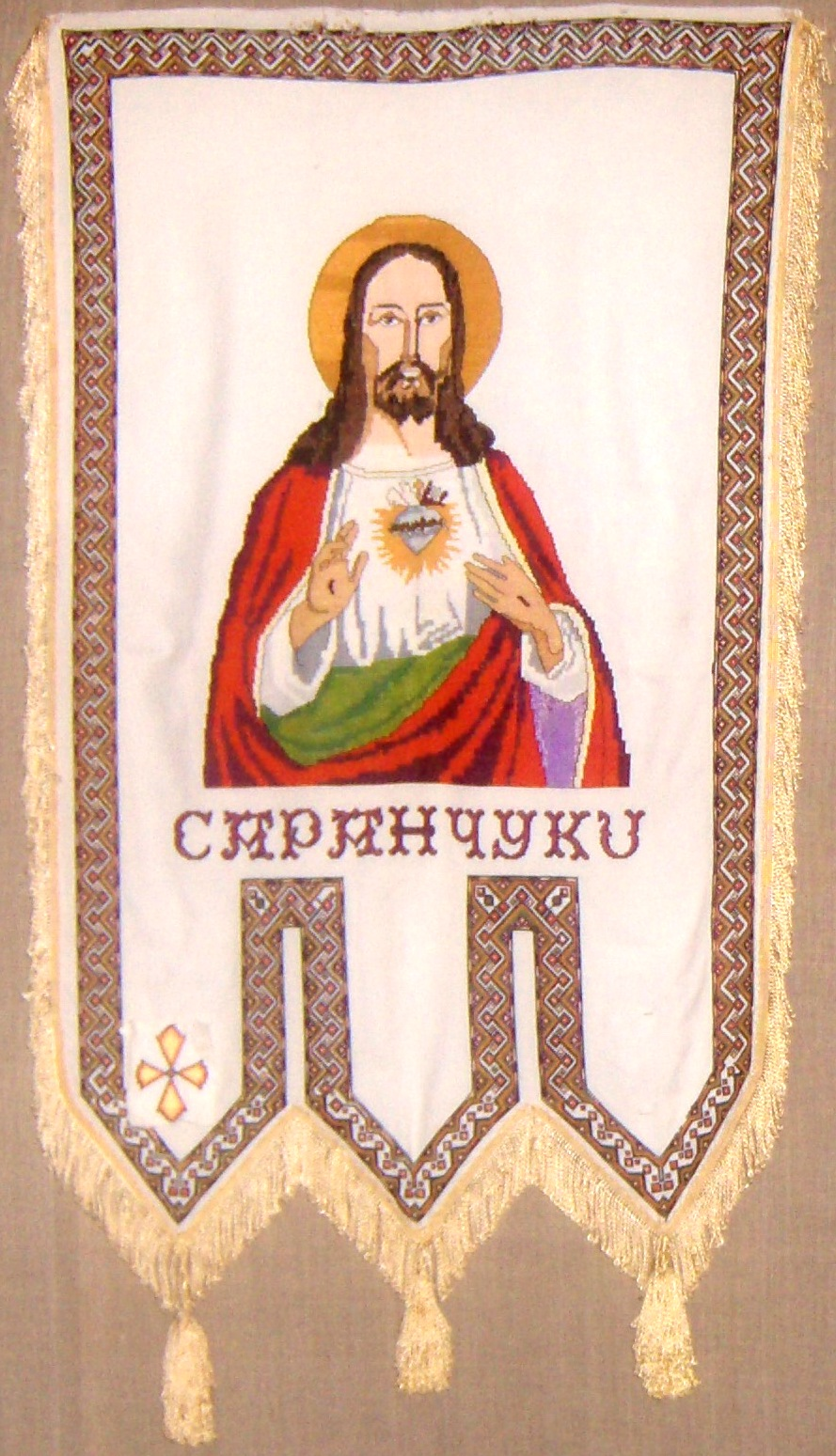 Church pennant of village Saranchuky (Saranczuki) on public display at Berezhany town museum, in Berezhany, Ternopil oblast, western Ukraine.